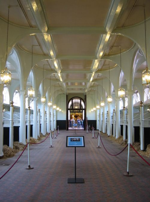 Stables in the Royal Mews. Photograph taken by Michael Reeve, 12 July 2002.